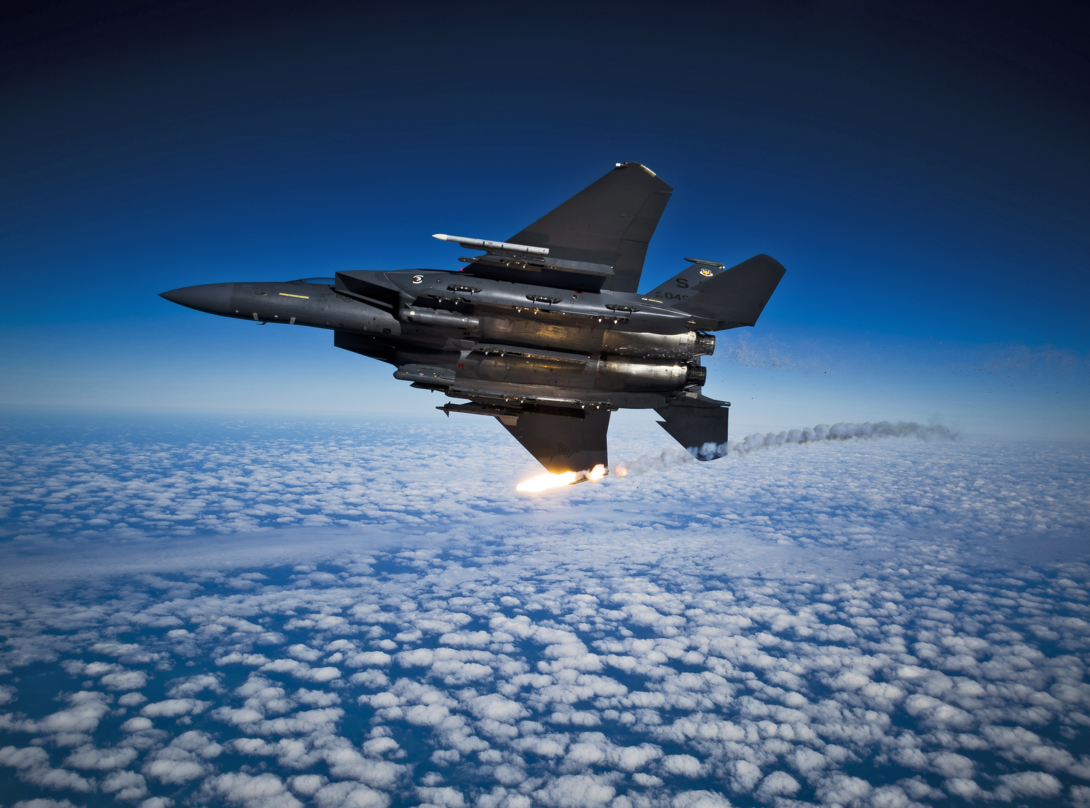 A U.S. Air Force F-15E Strike Eagle aircraft from the 335th Fighter Squadron releases flares during a local training mission over North Carolina.